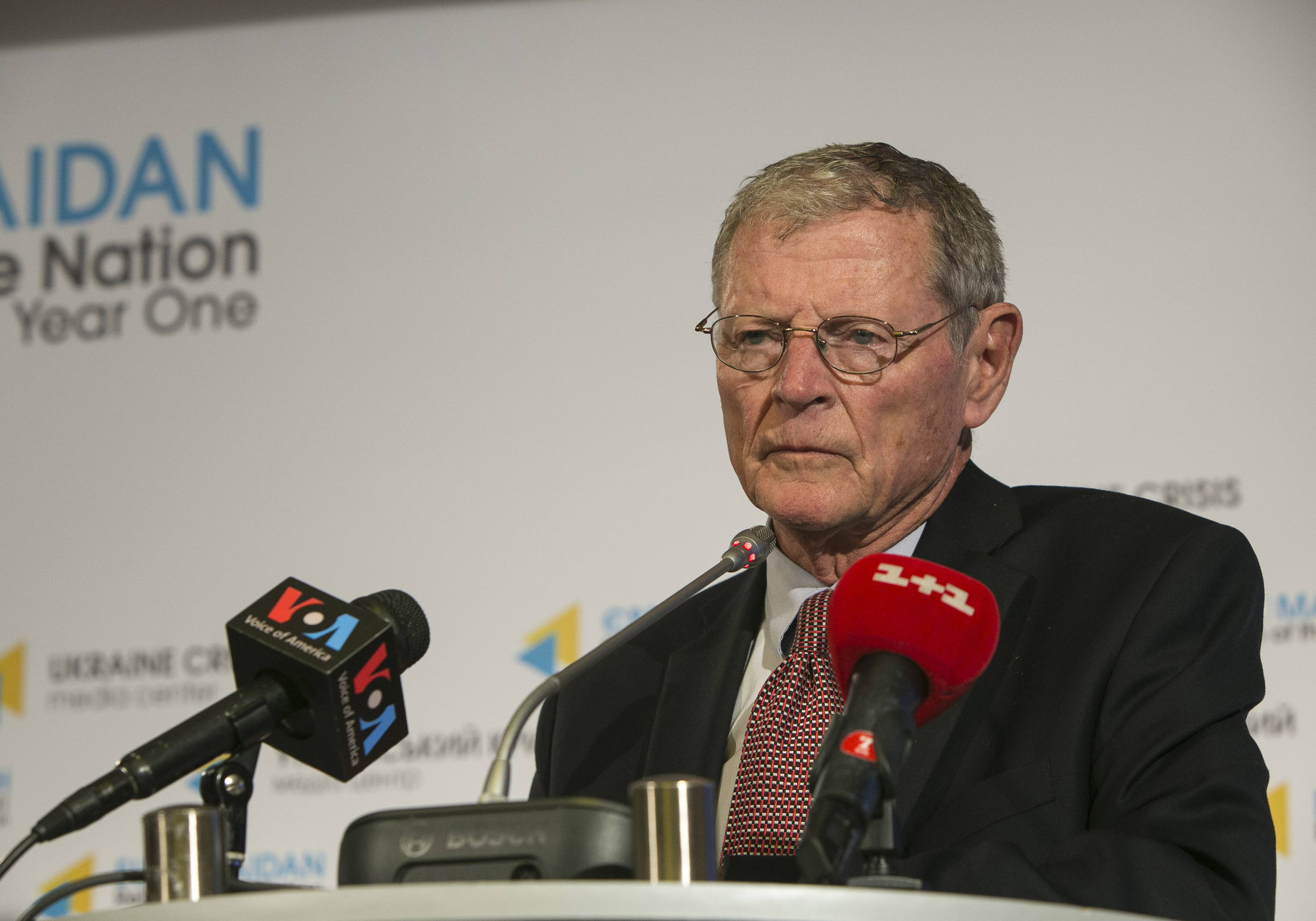 CODEL James Inhofe visit to Kyiv, Ukraine, October 27-28, 2014